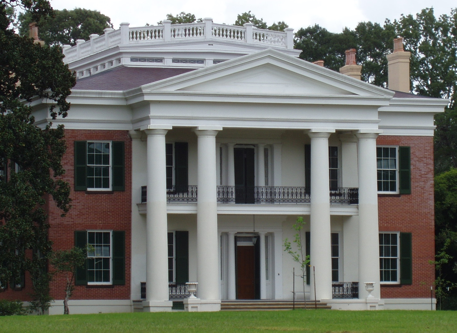 Picture of the antebellum home Melrose in Natchez Mississippi USA. Taken 9/10/2006 by R.Stephens.